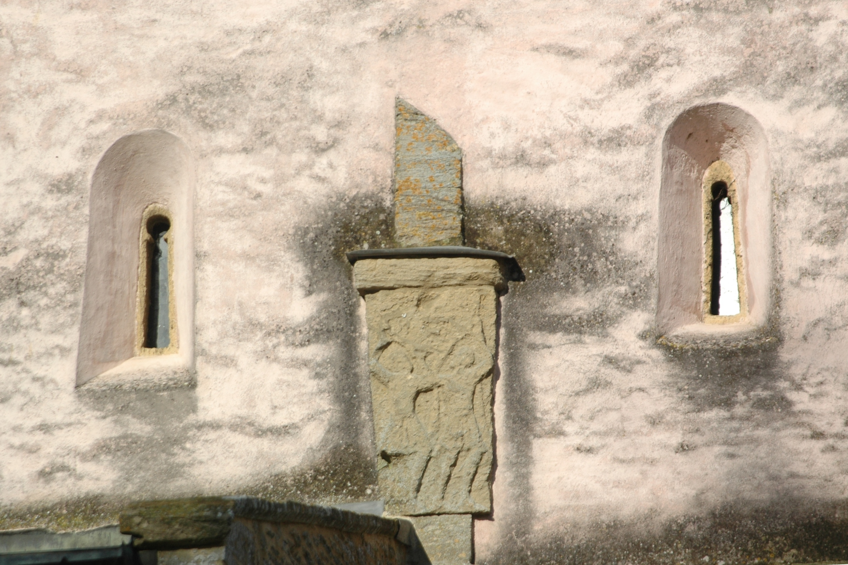 Church of England parish church of St Matthew, Langford, Oxfordshire: 11th-century windows and bas-relief on south side of the tower.